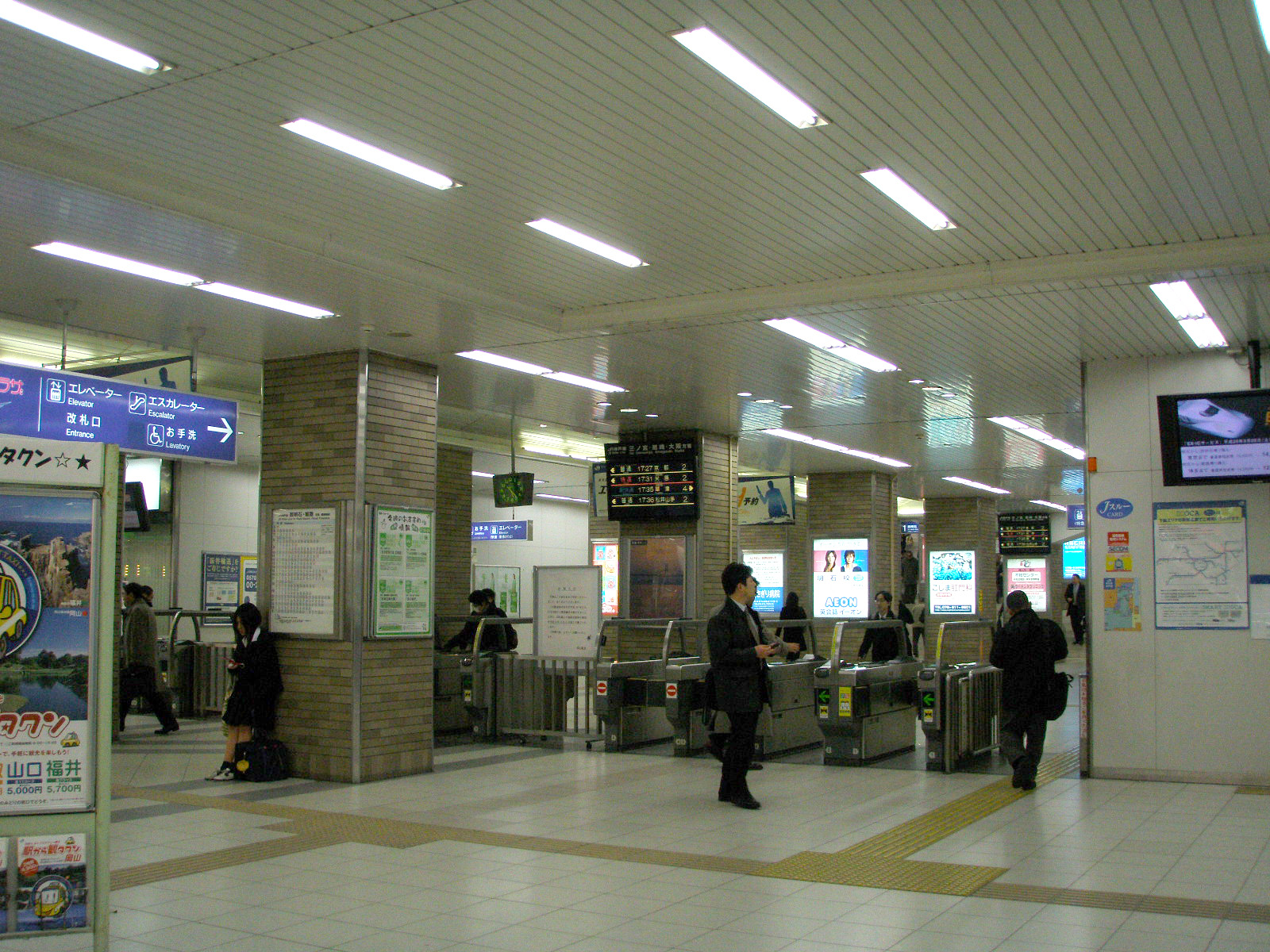 West Japan Railway Sanyo Main Line（JR Kobe Line） Akashi Station Ticket Gate 西日本旅客鉄道 山陽本線（JR神戸線） 明石駅 改札口